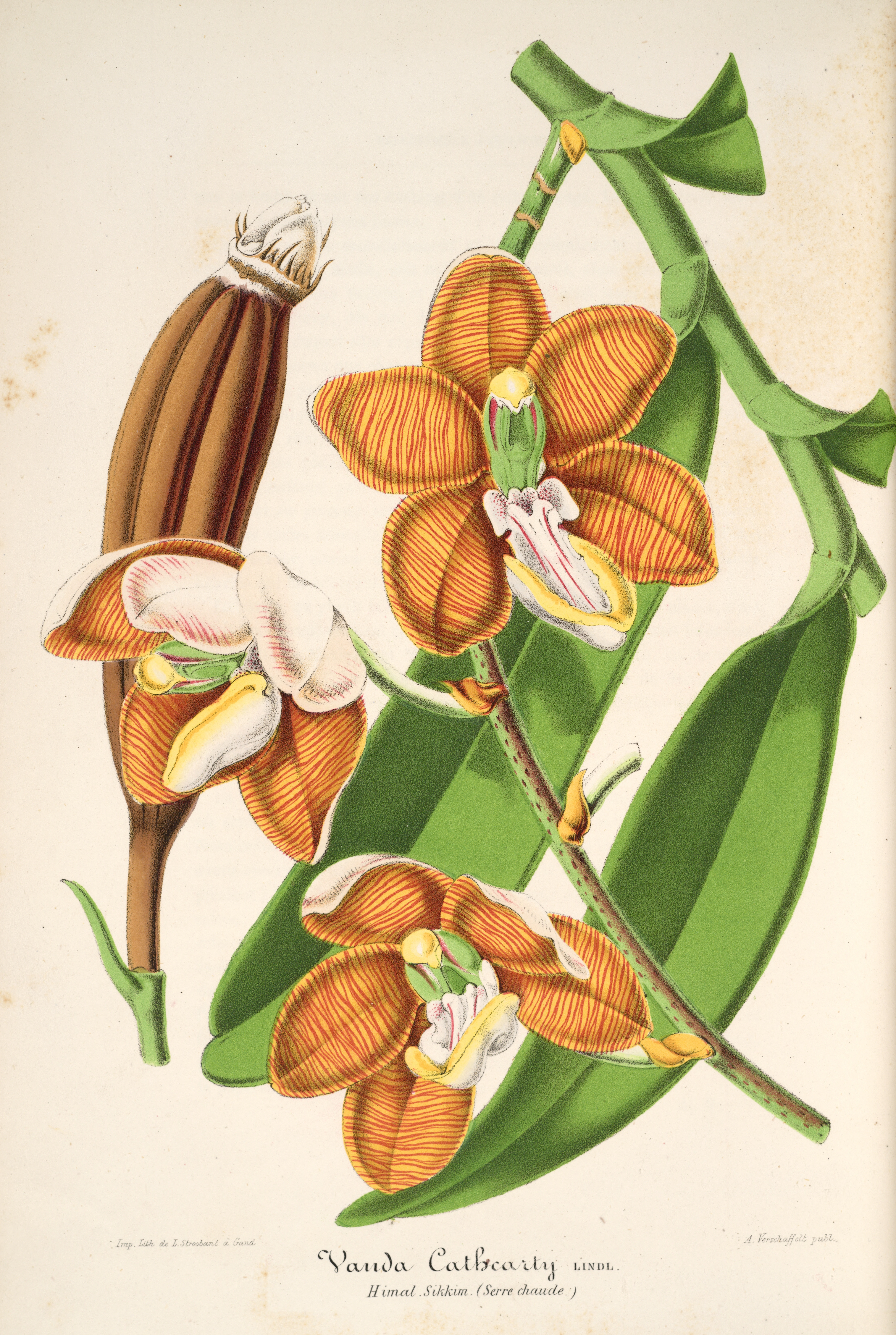 Line drawing of Esmeralda cathcartii